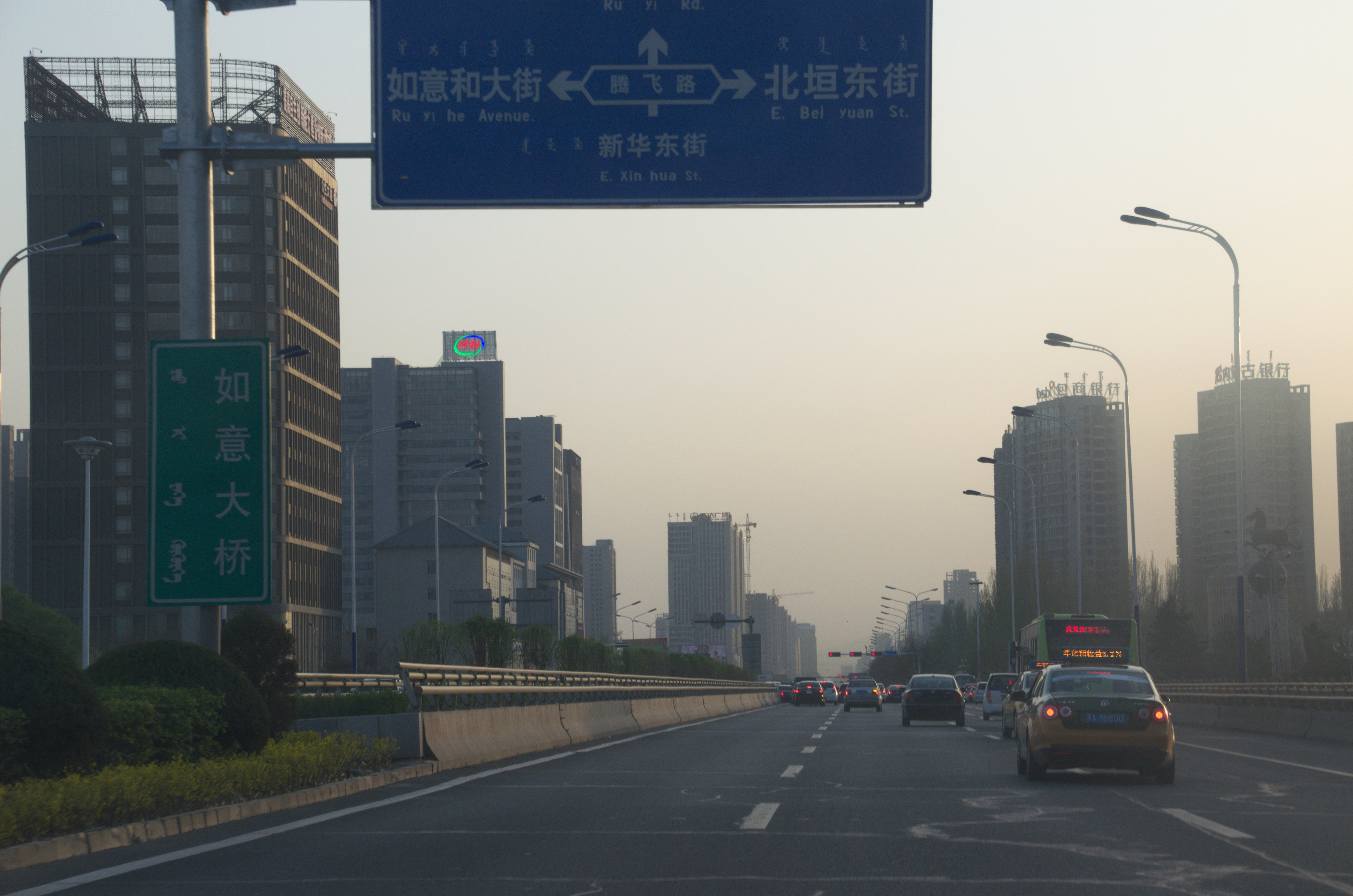 Ruyi great bridge (如意大桥) and Xinhua East street (新华东街) in Hohhot, capital of Inner Mongolia, People republic of China at the dusk. Signs are in 3 writings, englis, chinese and traditional mongolian.